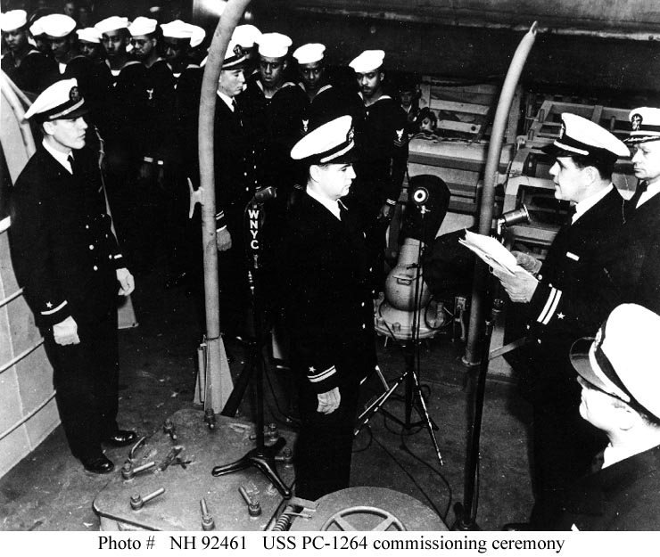 Commissioning of USS PC-1264. Lt. Eric Purdon (at microphone), PC 1264 's first commanding officer, reads the official orders directing him to assume command.